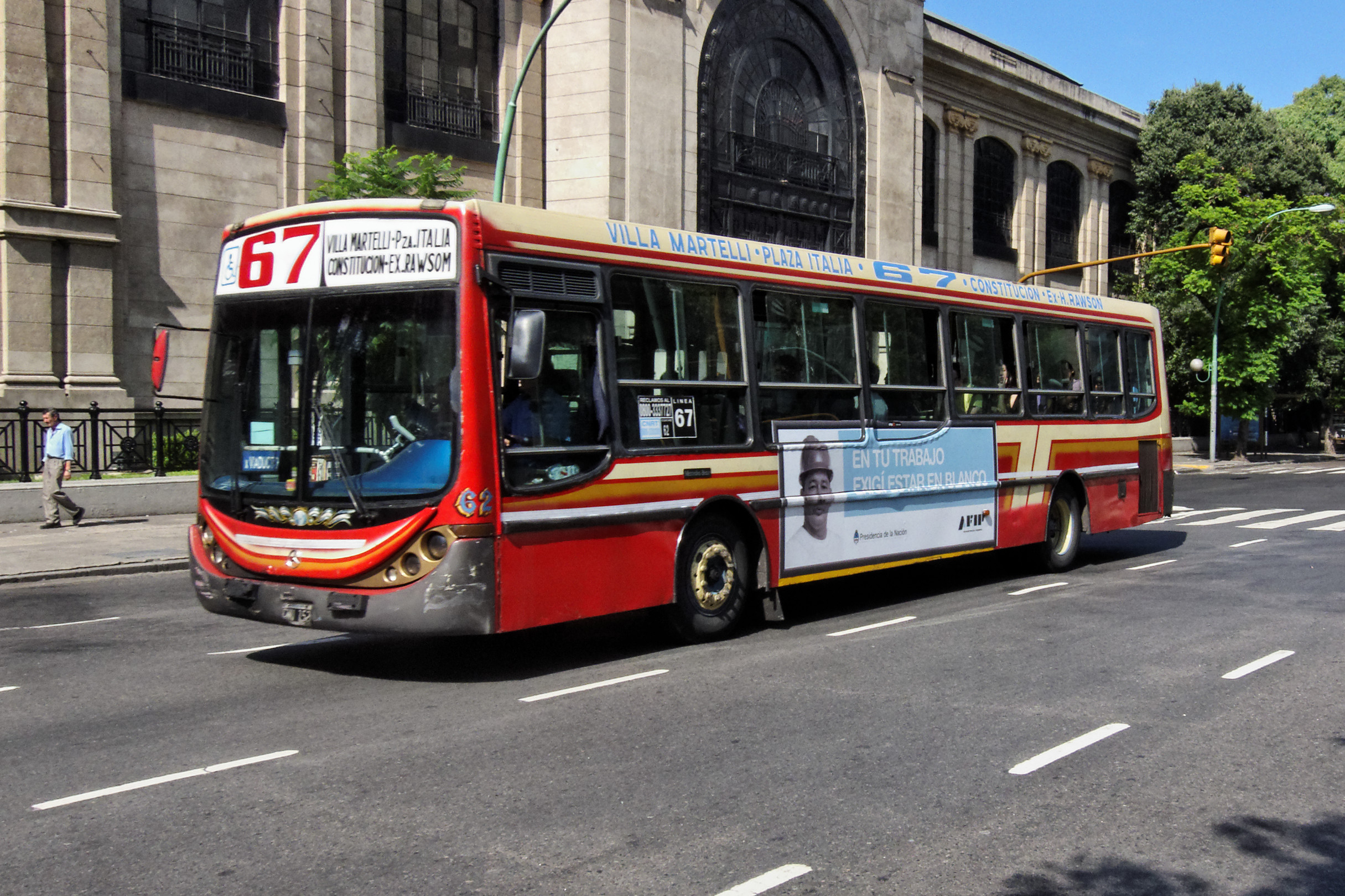 Metalpar Tango bus (reg. CWU-152, #62) with Mercedes-Benz OH 1315 L chassis in Buenos Aires, Argentina. Colectivo, line 67, Transportes del Tejar S.A. operator.